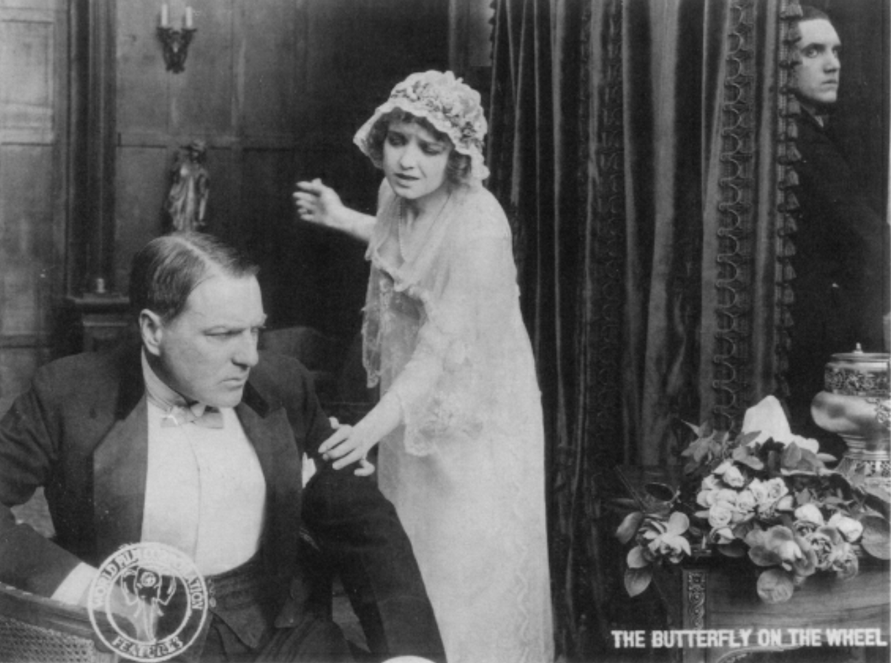 Publicity still by World Film Company of Holbrook Blinn and Vivian Martin in a scene from their silent film The Butterfly on the Wheel, made in 1915.